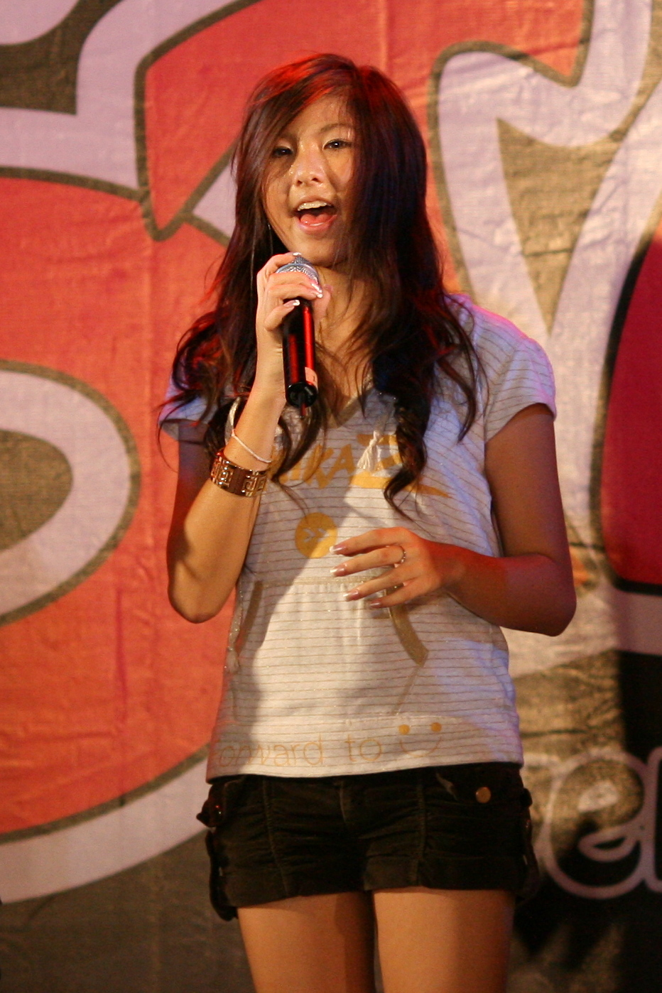 Panyarisa "Waii" Thienprasit at Advance on Stage Overheat Greet Concert, CentralWorld.